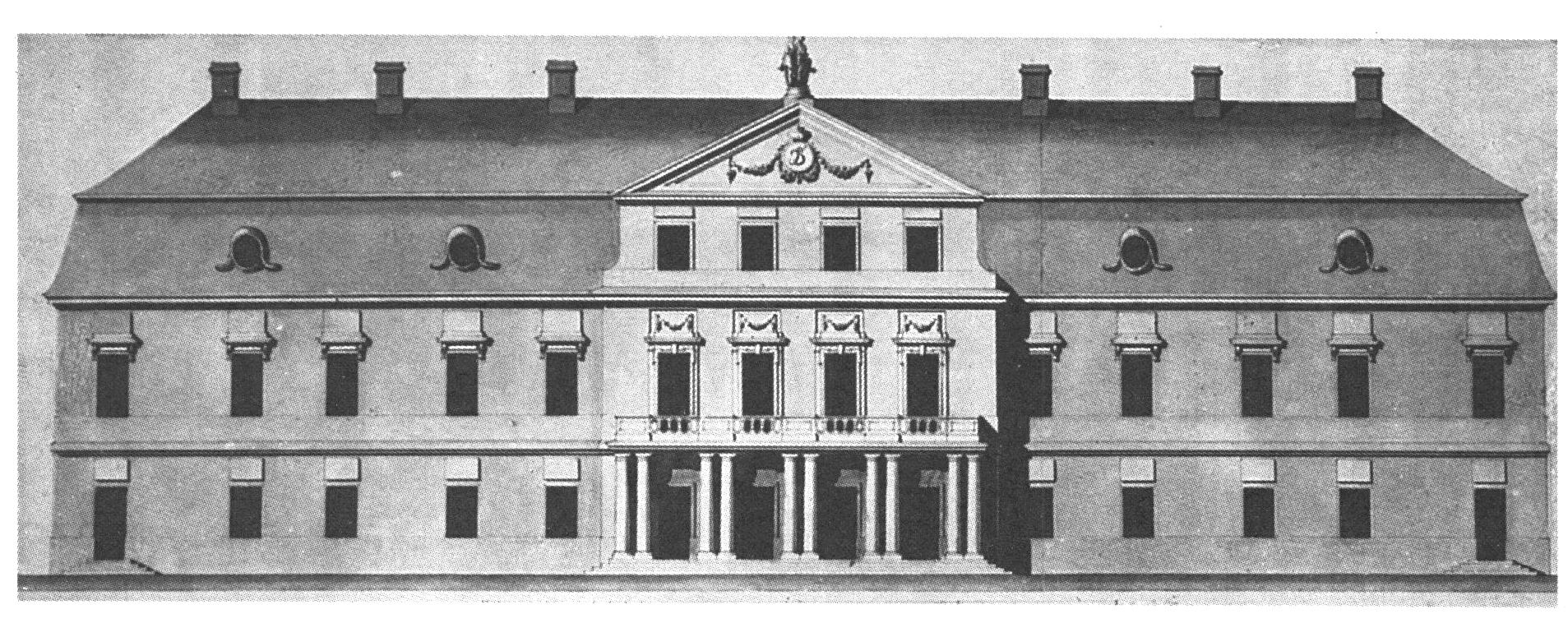 Projekt of Palace of Sapieha (Ruzhany, Belarus)